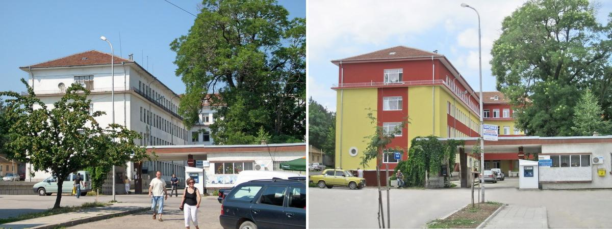 Popovo - Hospital